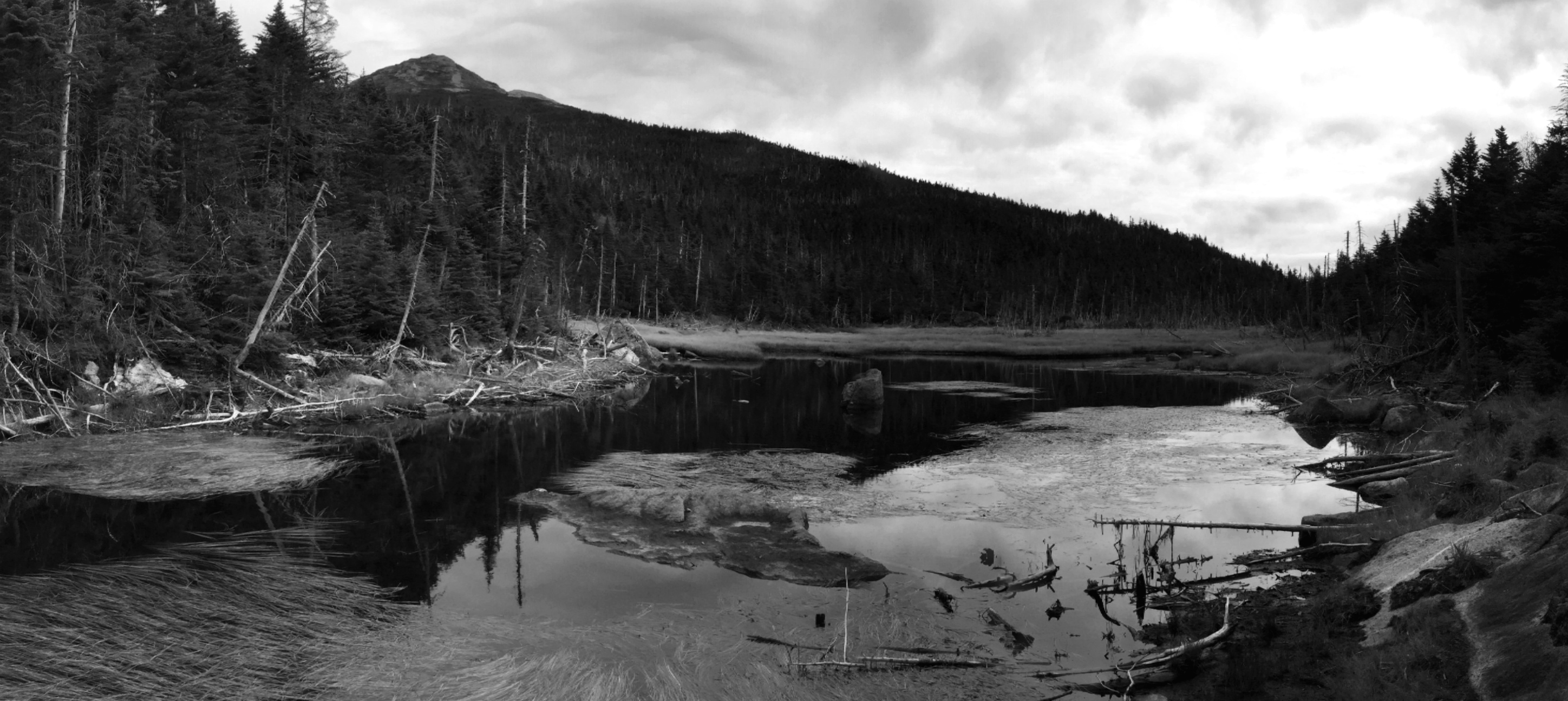 Lake Tear of the Clouds with Mt. Marcy in the background, taken approximately midday.